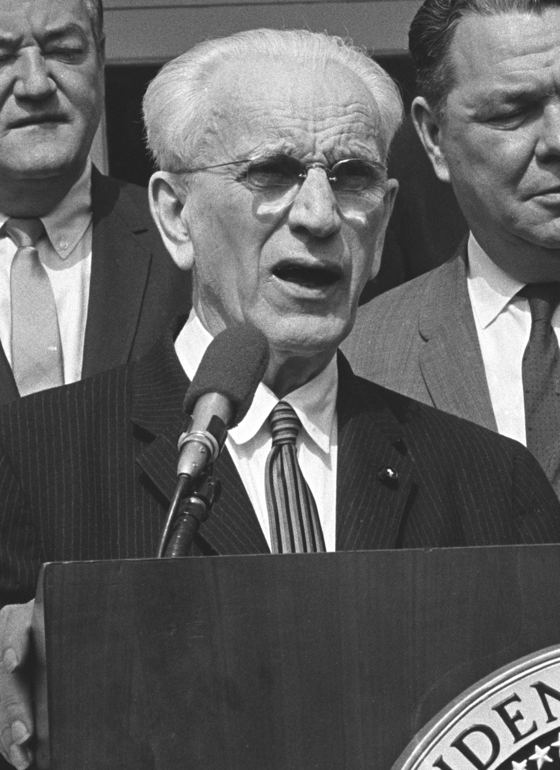 Photograph of U.S. Speaker of the House of Representatives, John McCormack, speaking on behalf of Democratic Congressional leadership in 1965. Image cropped and shadows decreased using Photo Editor at